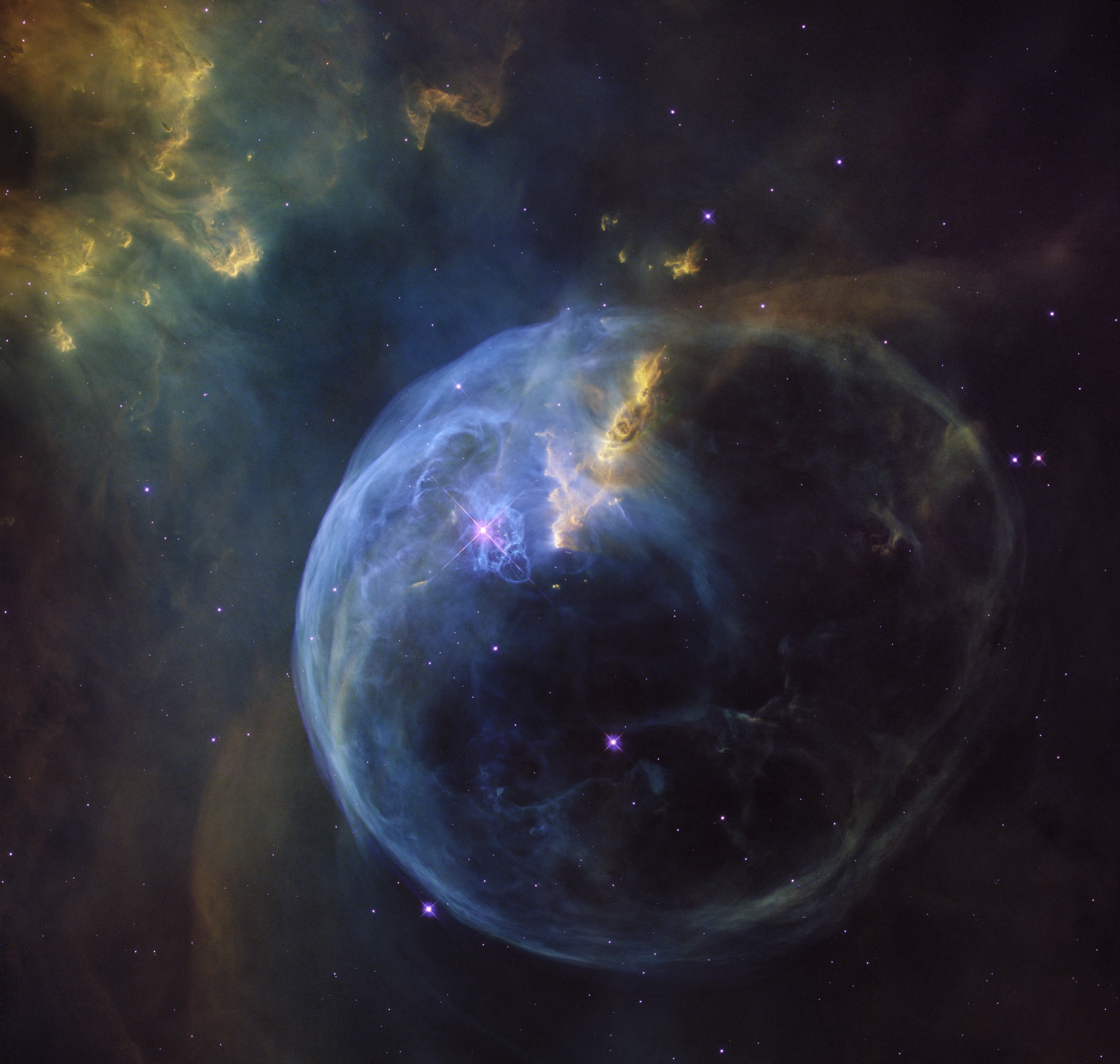 The Bubble Nebula, also known as NGC 7635, is an emission nebula located 8,000 light-years away. This stunning new image was observed by the NASA/ESA Hubble Space Telescope to celebrate its 26th year in space.